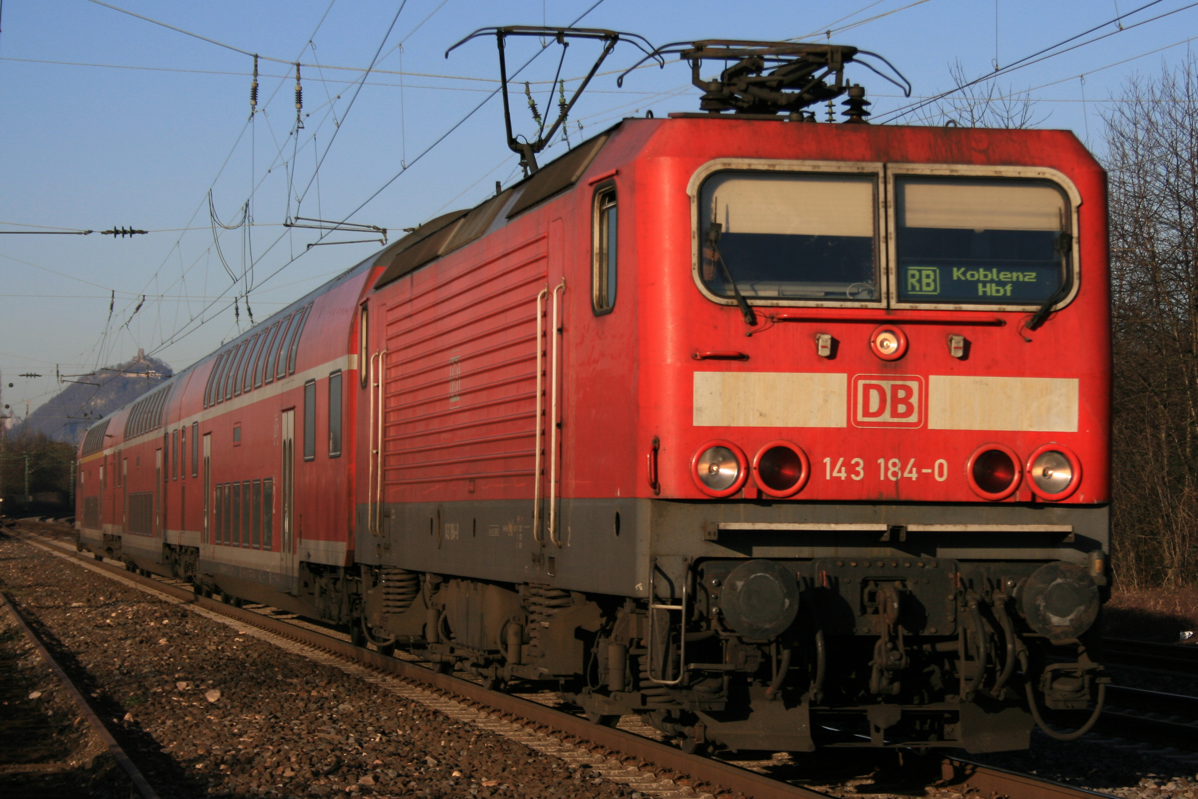 DB 143 184-0 near Unkel Camera data Camera Canon EOS 400D Lens Canon EF-S 18-55mm Focal length 55 mm Aperture f/8 Exposure time 1/800 s Sensivity ISO 200